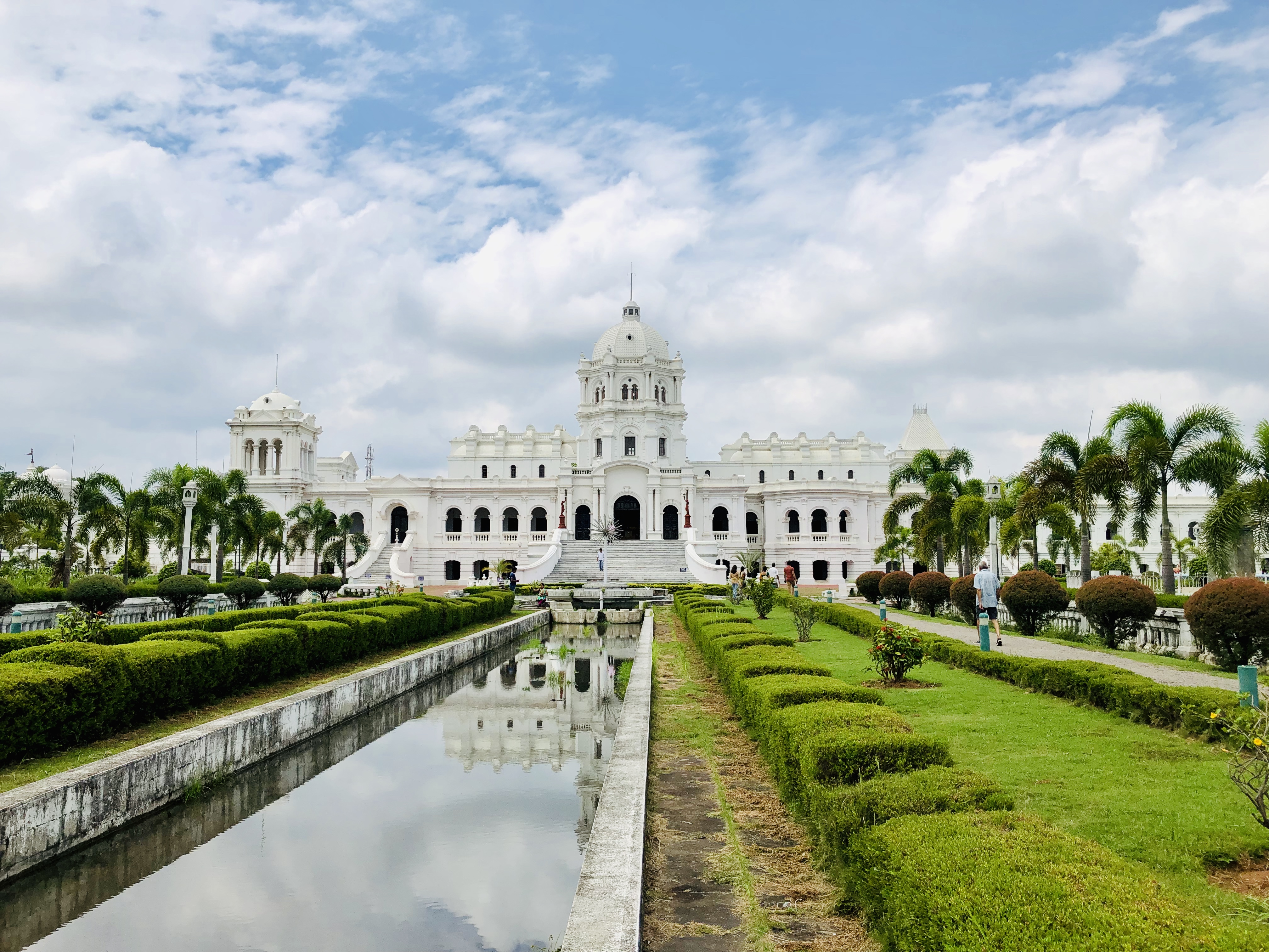 Promenade is about one kilometre long